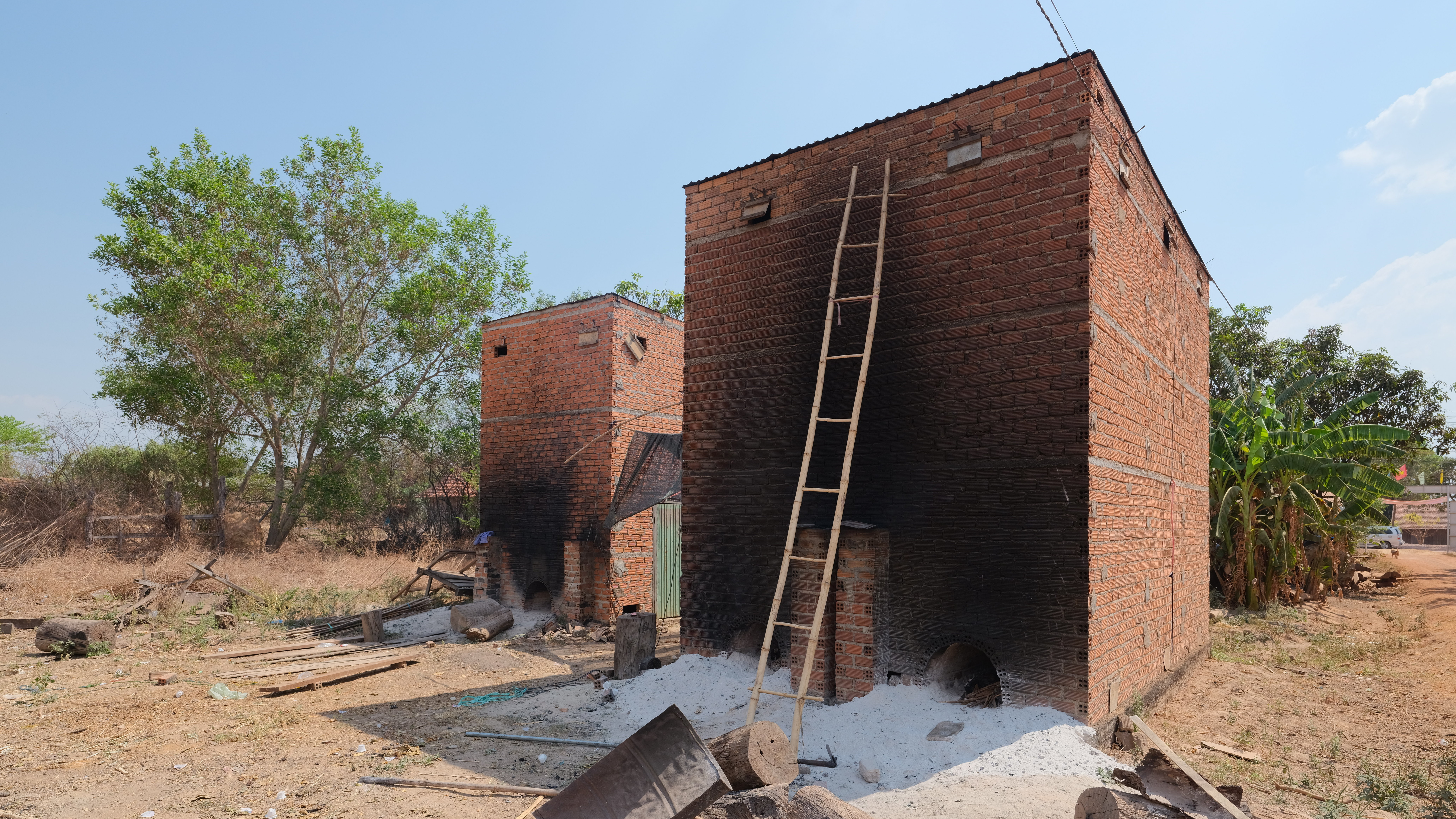 Tobacco kilns in DakLak province, Vietnam.